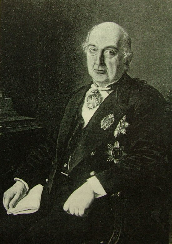 Ivan Delianov (1817-1897) GRAF, ministr of Russia